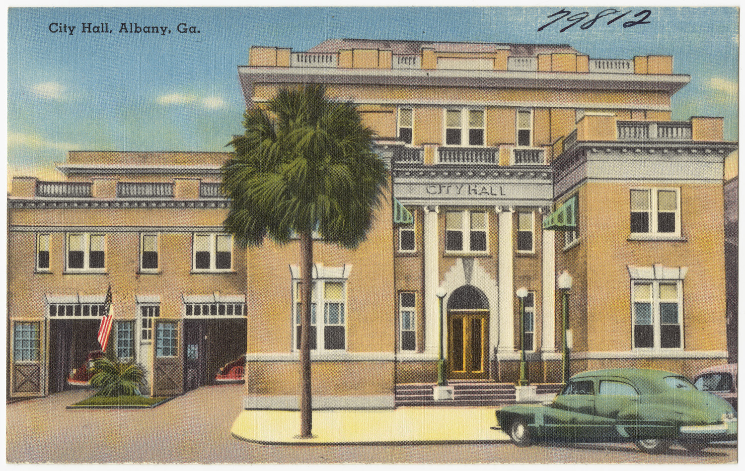 File name: 06_10_013826 Title: City hall, Albany, Ga. Date issued: 1930 - 1945 (approximate) Physical description: 1 print (postcard) : linen texture, color ; 3 1/2 x 5 1/2 in. Genre: Postcards Subject: City & town halls Notes: Title from item. Collection: The Tichnor Brothers Collection Location: Boston Public Library, Print Department Rights: No known restrictions